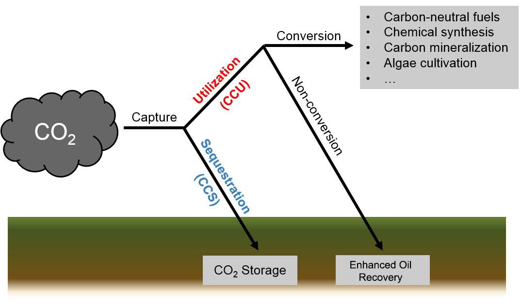 Schematic diagram showing a comparison between sequestration and utilization of captured carbon